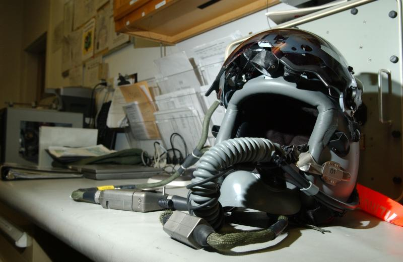 JHMCS helmet